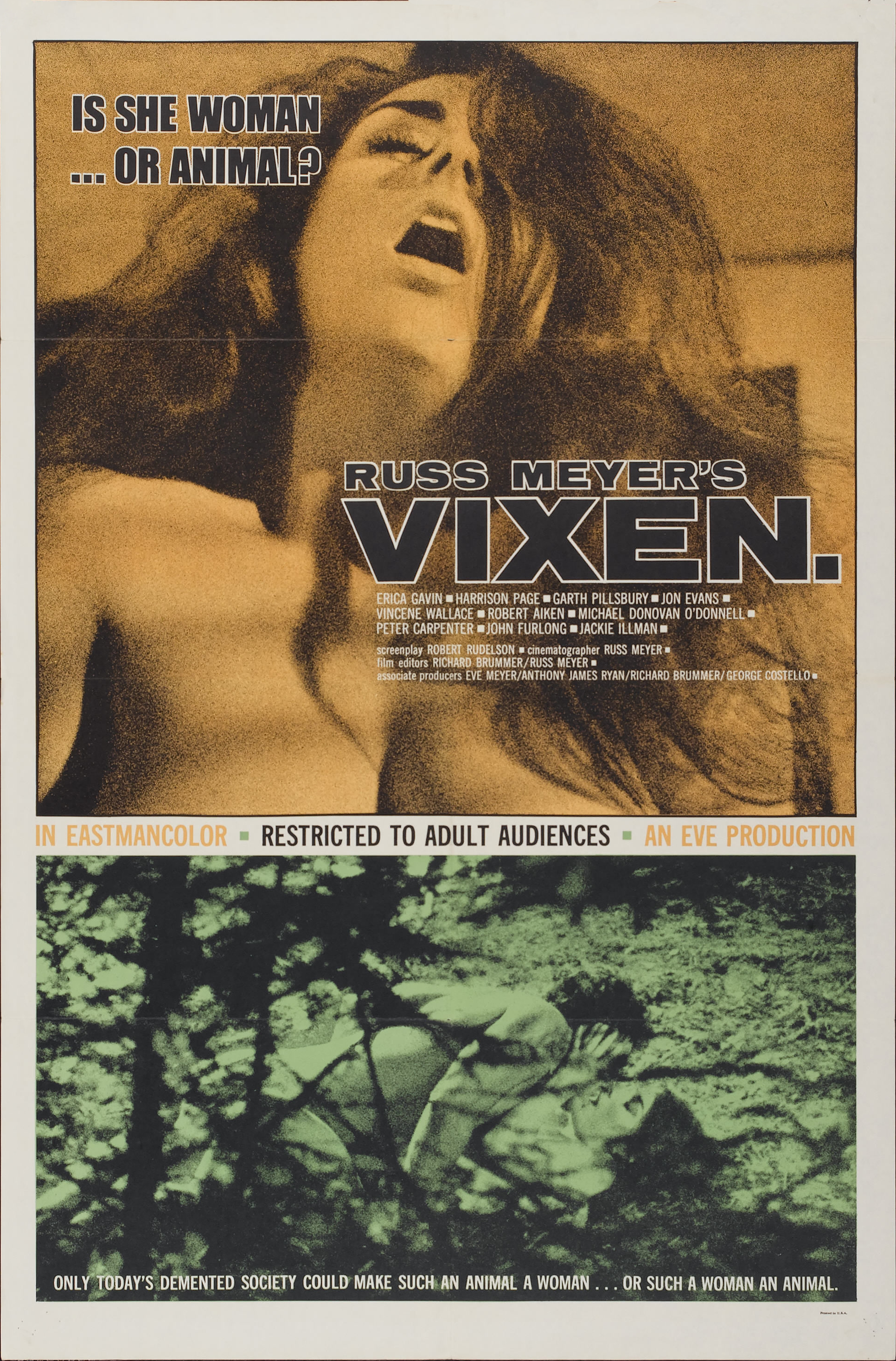 Film poster for the exploitation film Vixen! (1968) starring Erica Gavin